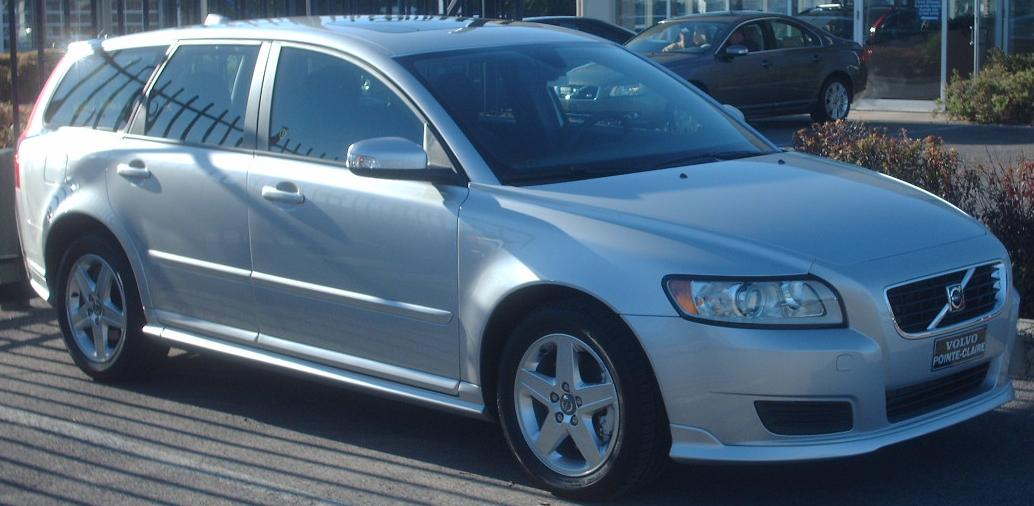 2008 Volvo V50 photographed in Montreal, Quebec, Canada.